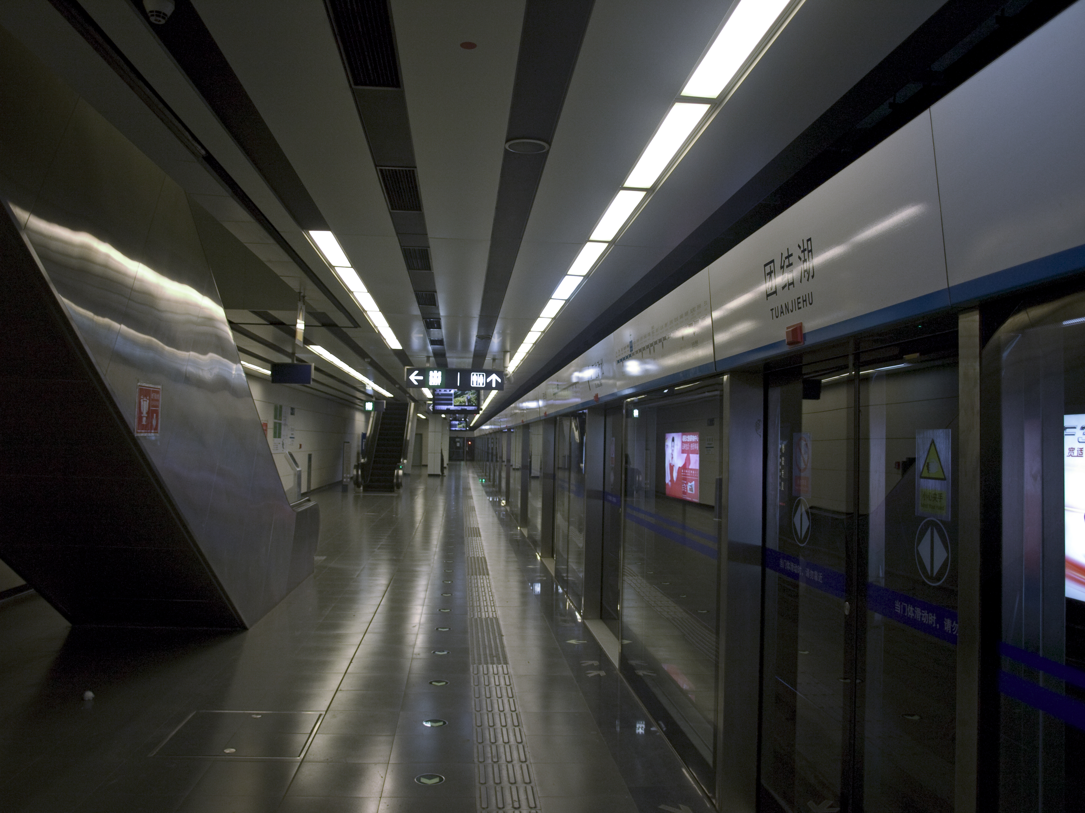 Tuanjiehu station, Beijing Subway